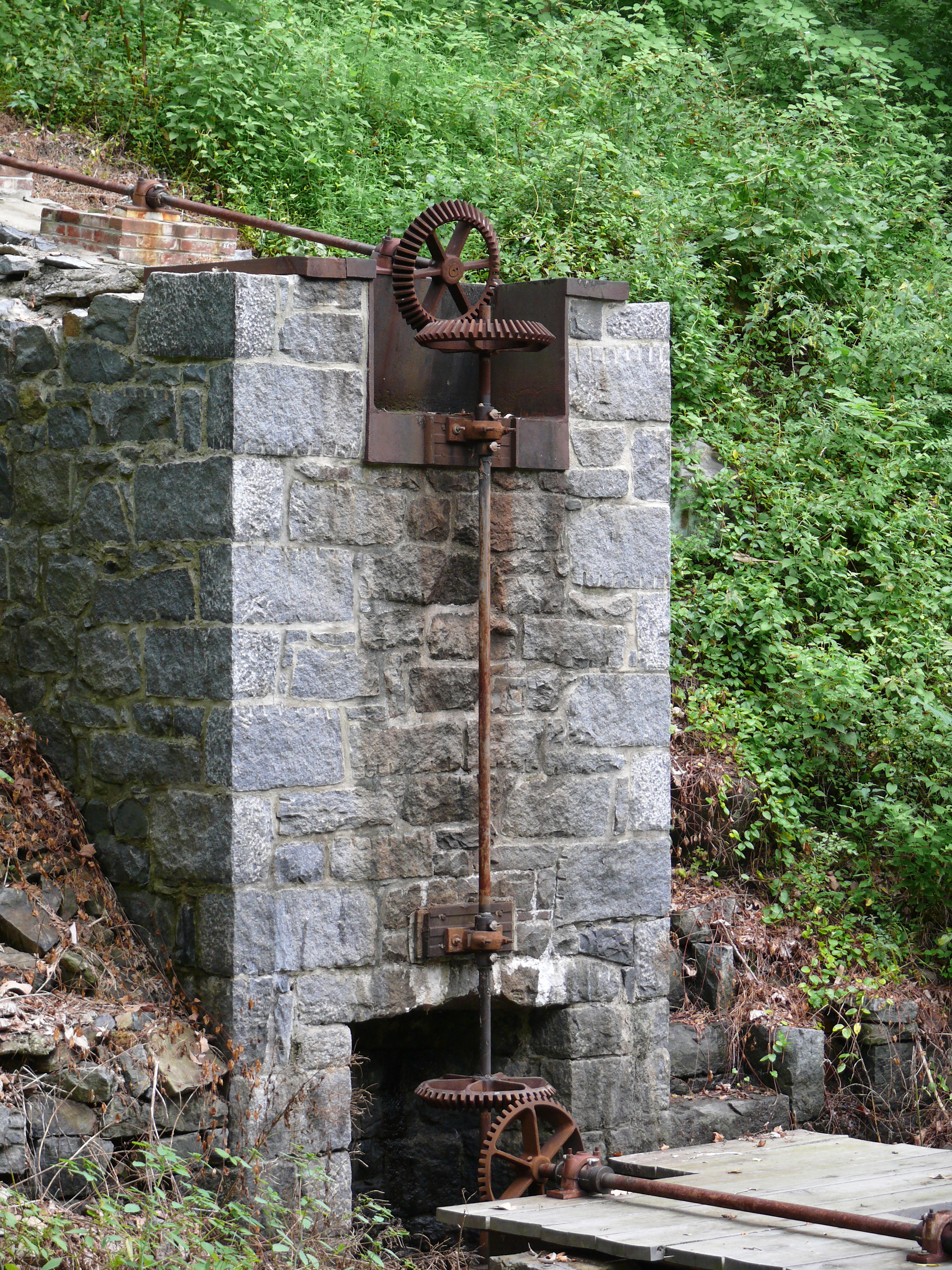 Transmission with Bevel gears at the former Du Pont gunpowder workshops (now: Hagley Museum and Library, Wilmington, DE). The transmission was put in motion by a water wheel.